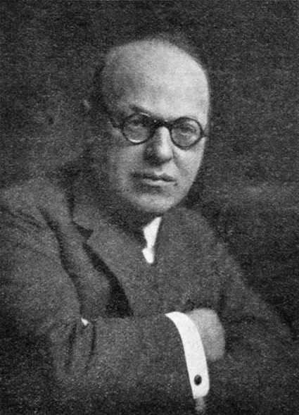 Arne Novák (1880–1939) was a Czech literary historian and critic, specialist in German and Czech studies.